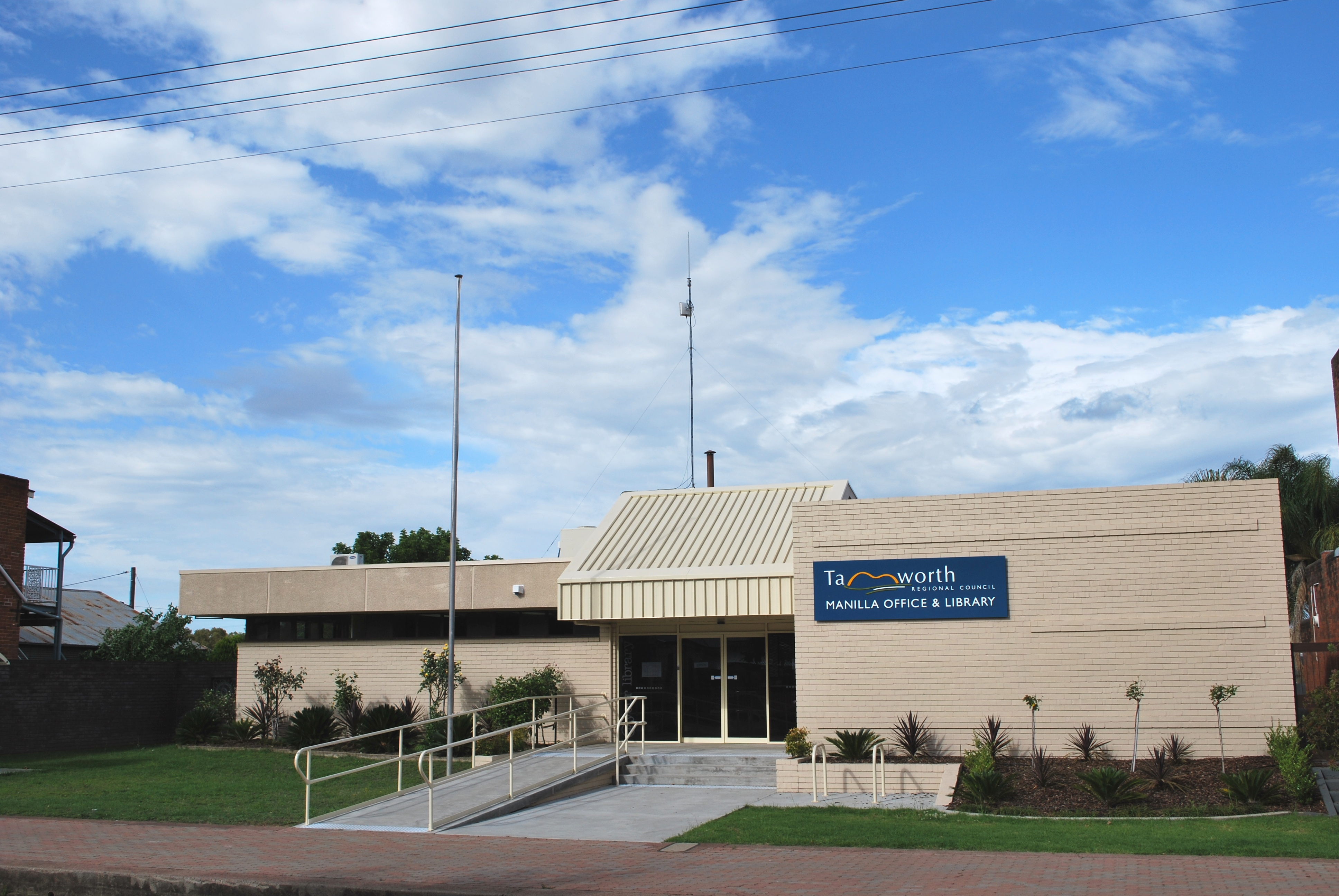 Former Manilla Shire office at Manilla, New South Wales, now a branch office and library of Tamworth Regional Council